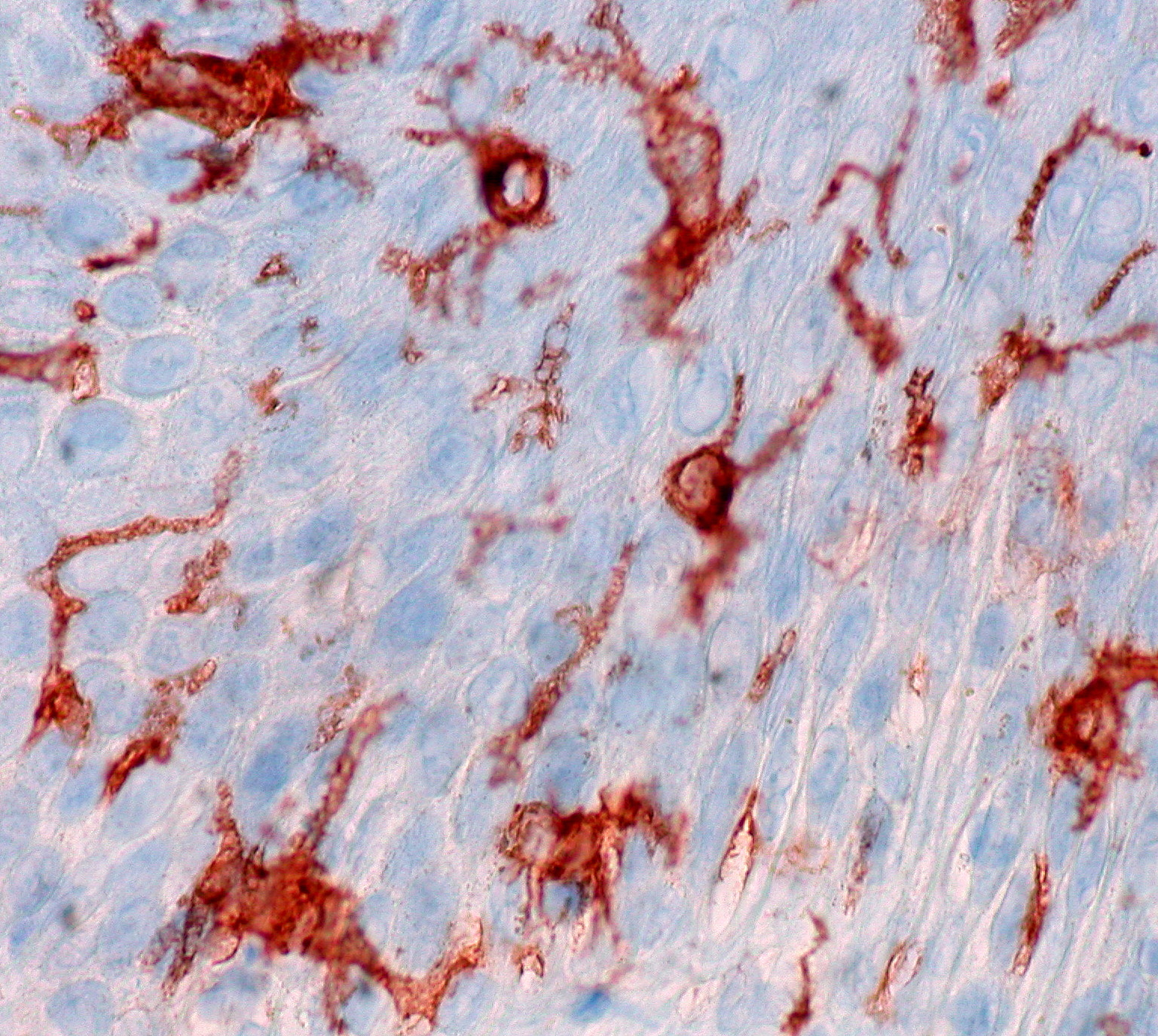 Langerhans Cells in Normal Epidermis, CD1a Immunostain Pathological and histological images courtesy of Ed Uthman at flickr.